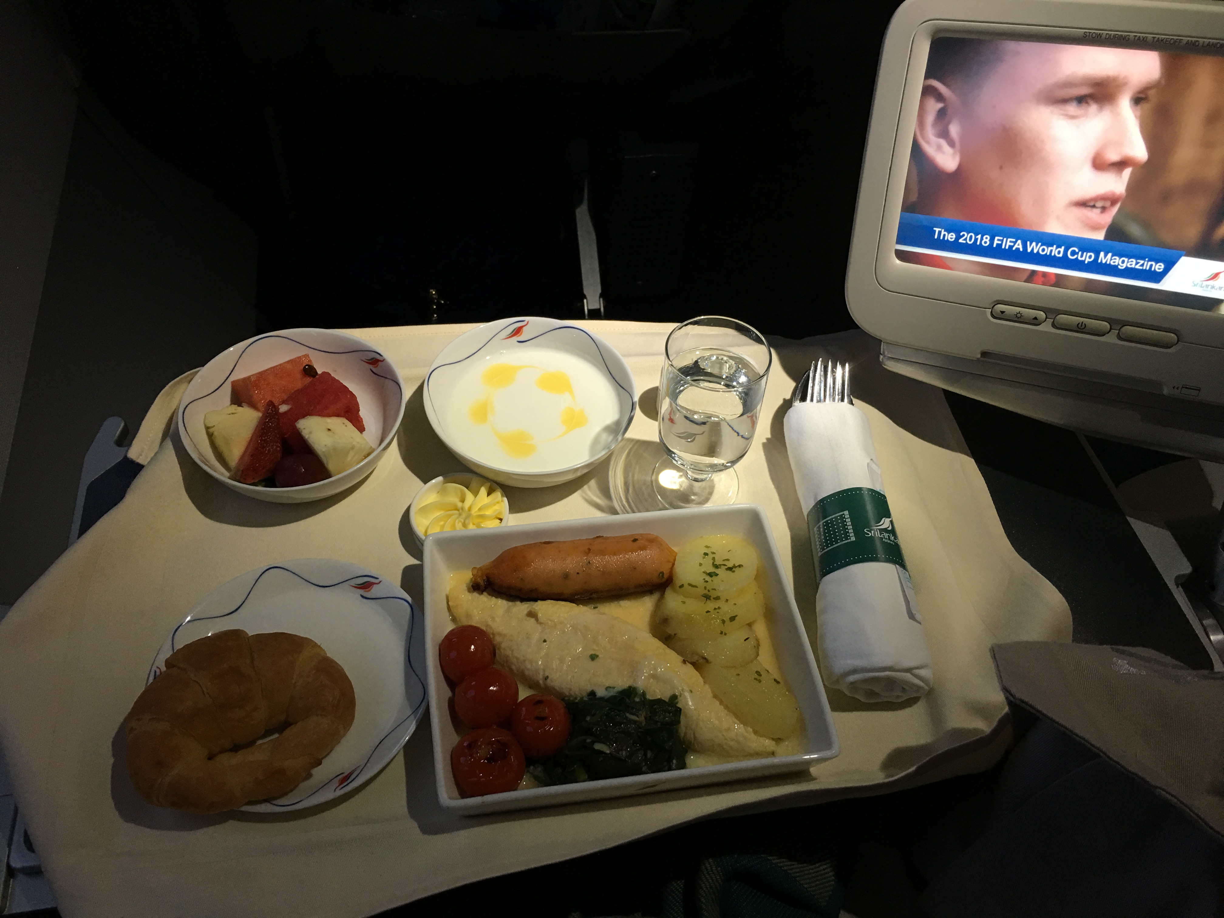 Business Class Breakfast on SriLankan Airlines UL708